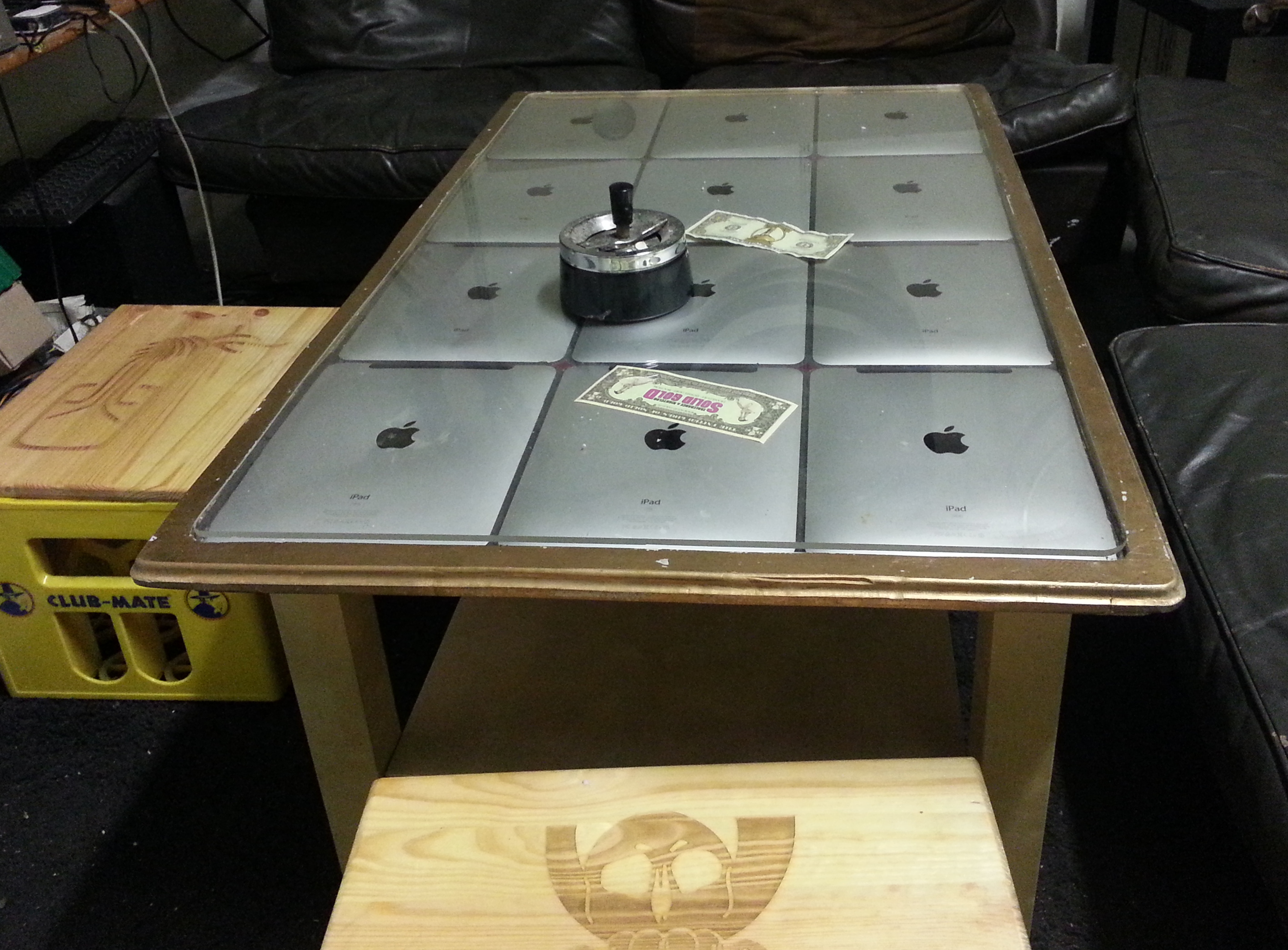 iPad tile table in Chaosdorf, 2016